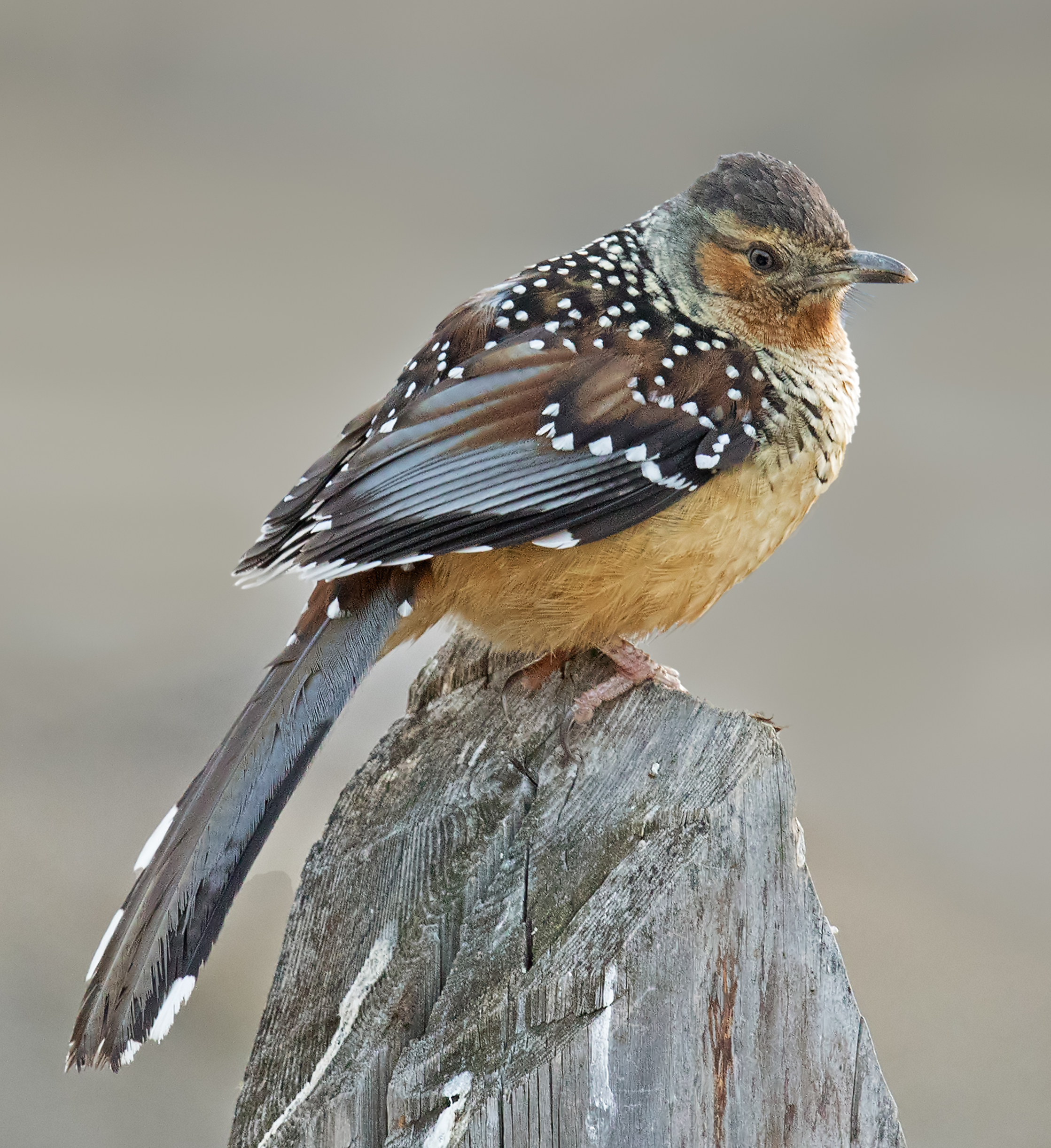 Giant Laughingthrush (Ianthocincla maxima or Garrulax maximus), Sichuan, Garze Tibetan Autonomous Prefecture